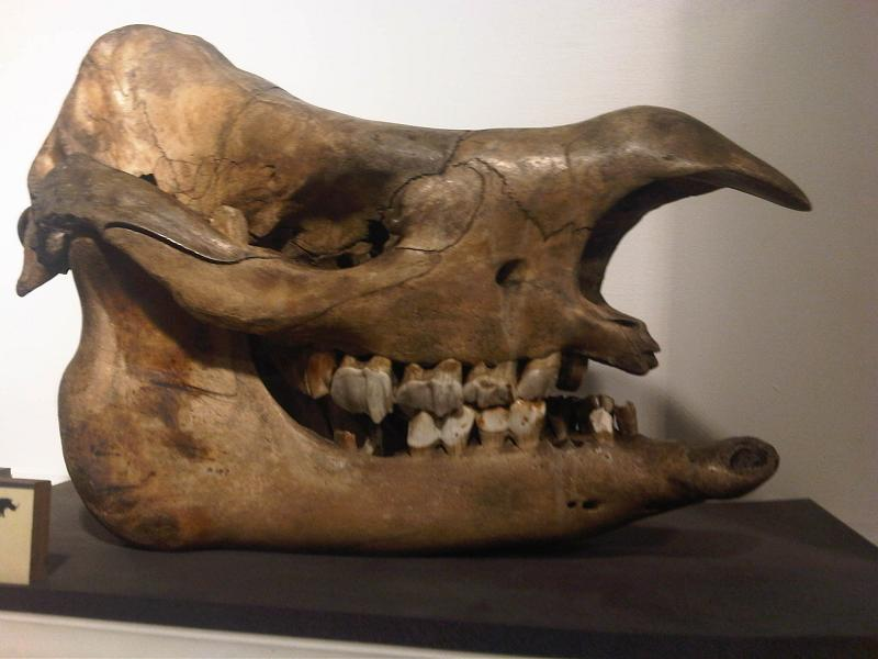 Javan Rhinoceros (Rhinoceros sondaicus) skull in Grant Museum of Zoology, London, England.